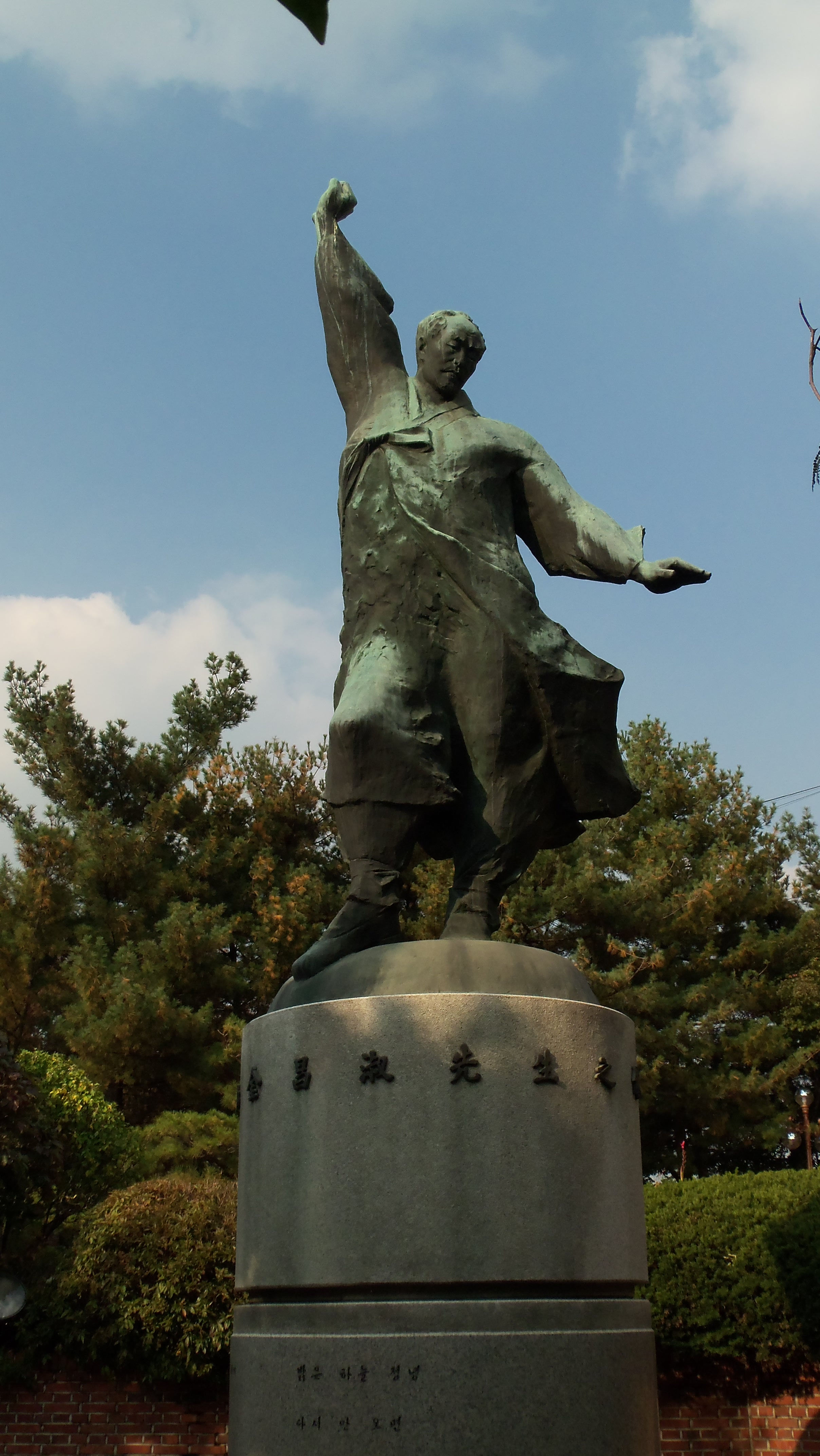 Kim Chang-suk.